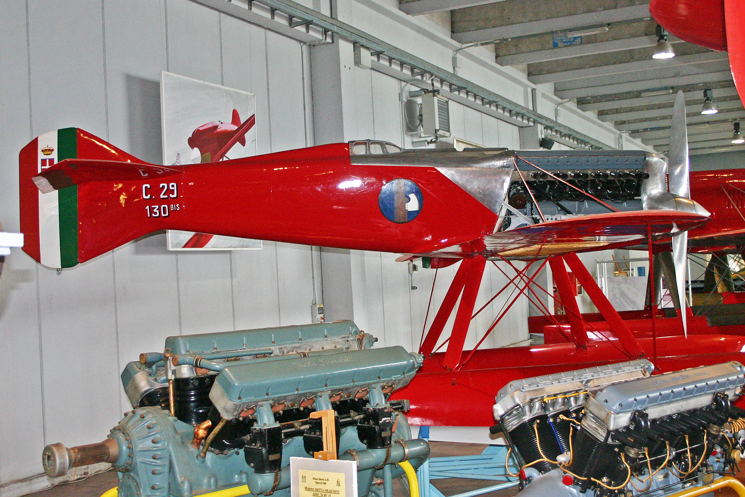 Displayed in Hangar VELO. Took part in the 1929 Schneider Cup. Average speed of 350mph was fast, but the aircraft was reportedly difficult to fly.